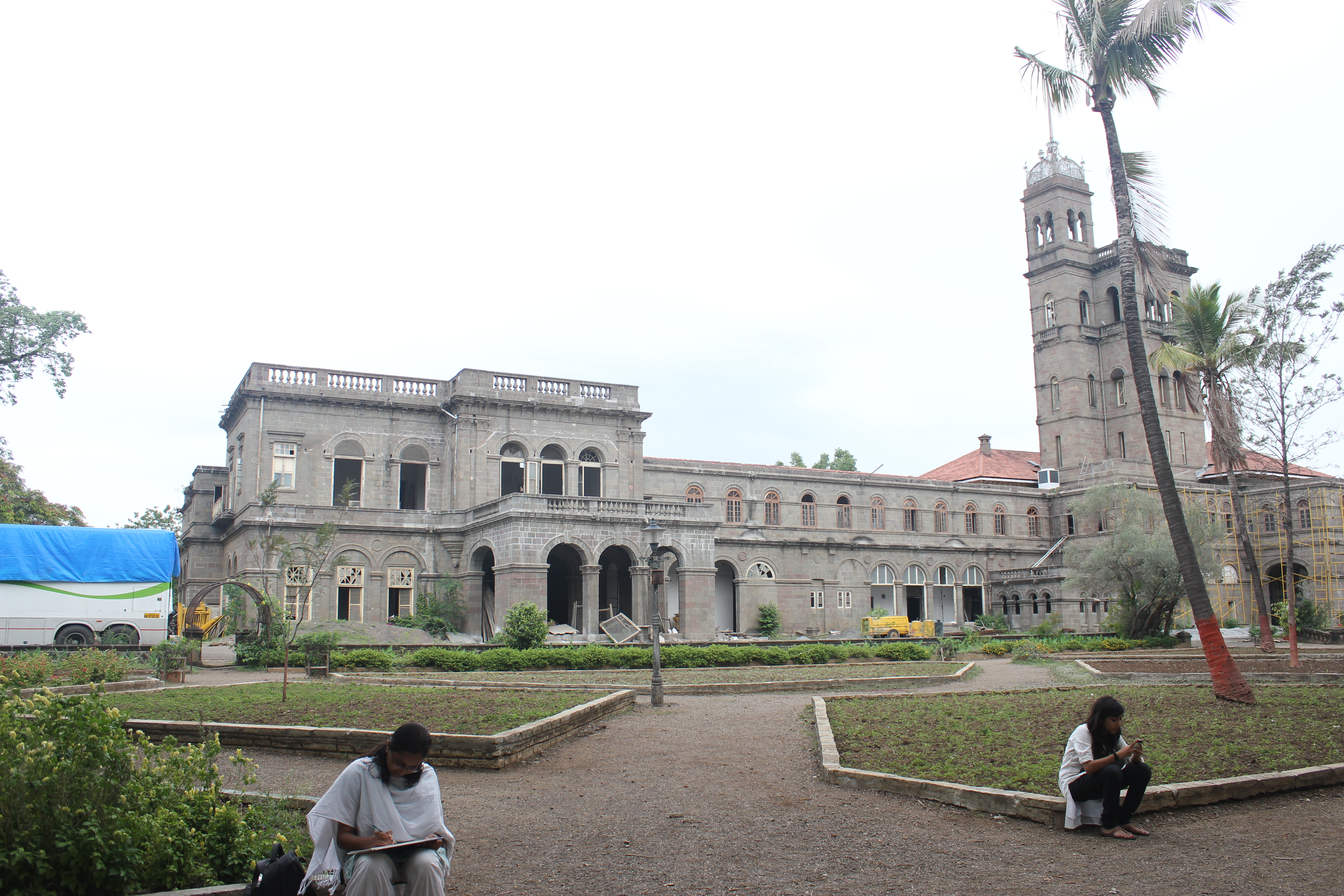 Pune India by Shalini Pal